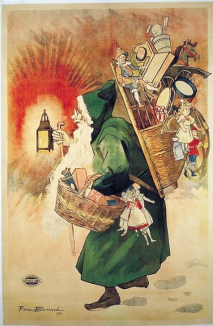 Lithographic poster for Christmas designed by Firmin Bouisset [commissioned by ?].